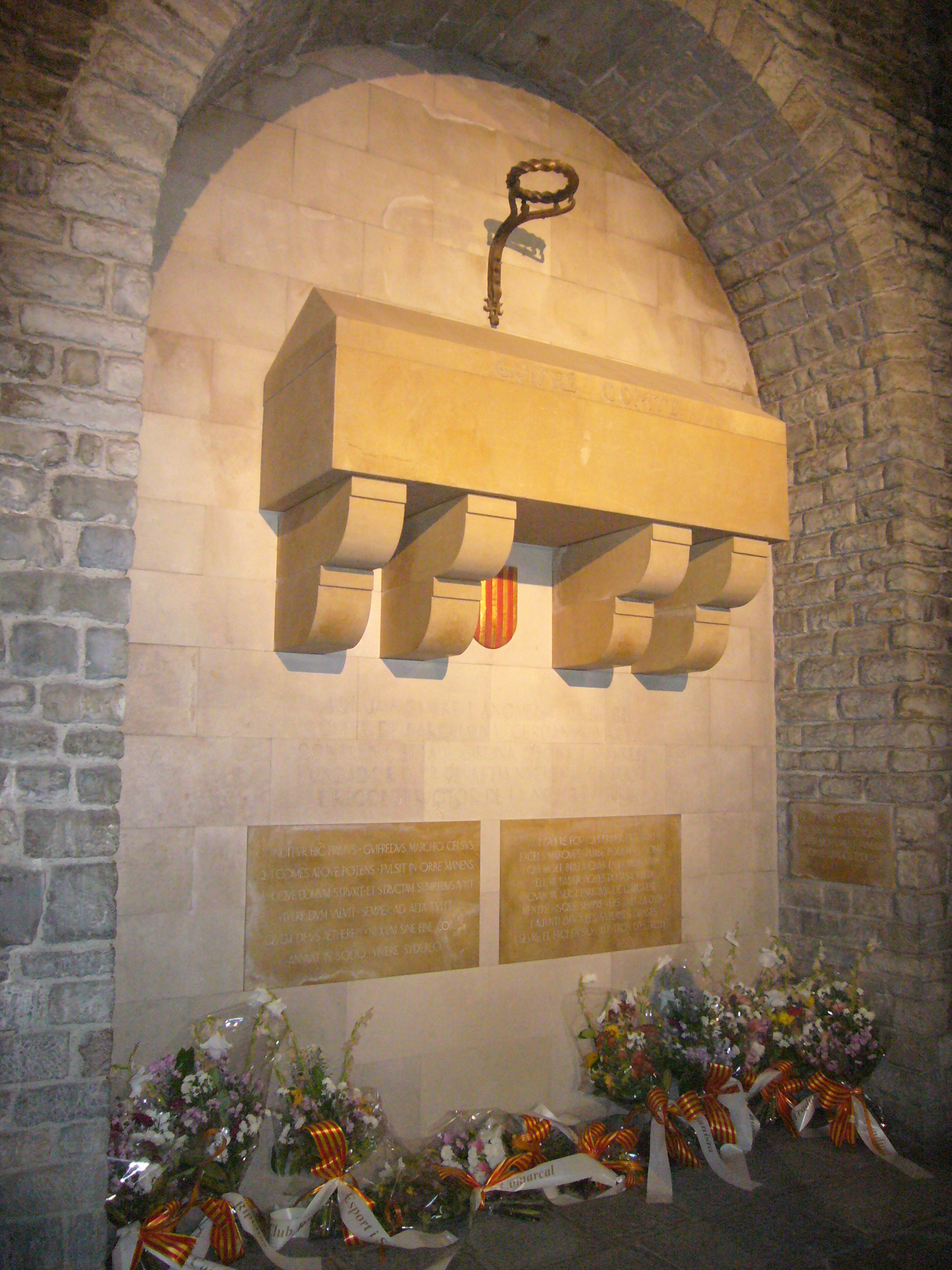 Interior of Santa Maria de Ripoll Monastery.